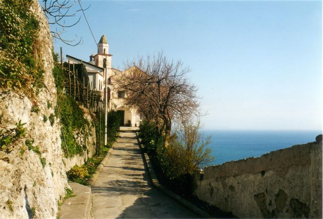 Ogerola (Italy) View of Santa Marina